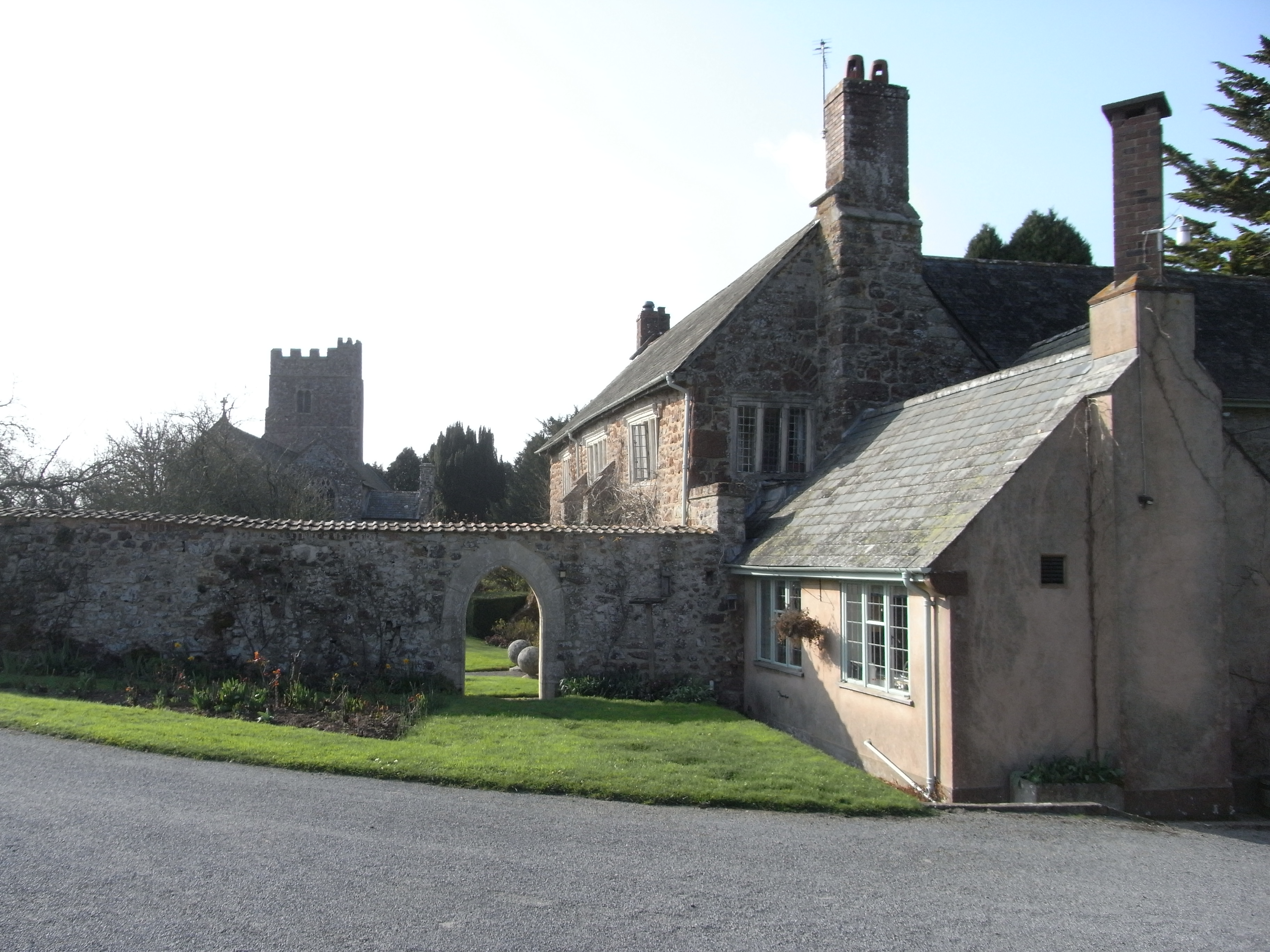 Holcombe Burnell Barton, Devon, with Holcombe Burnell Parish Church in background